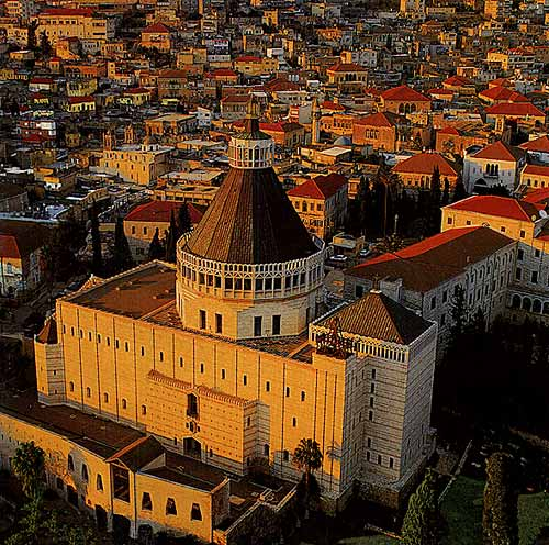 Nazareth, The Magical City